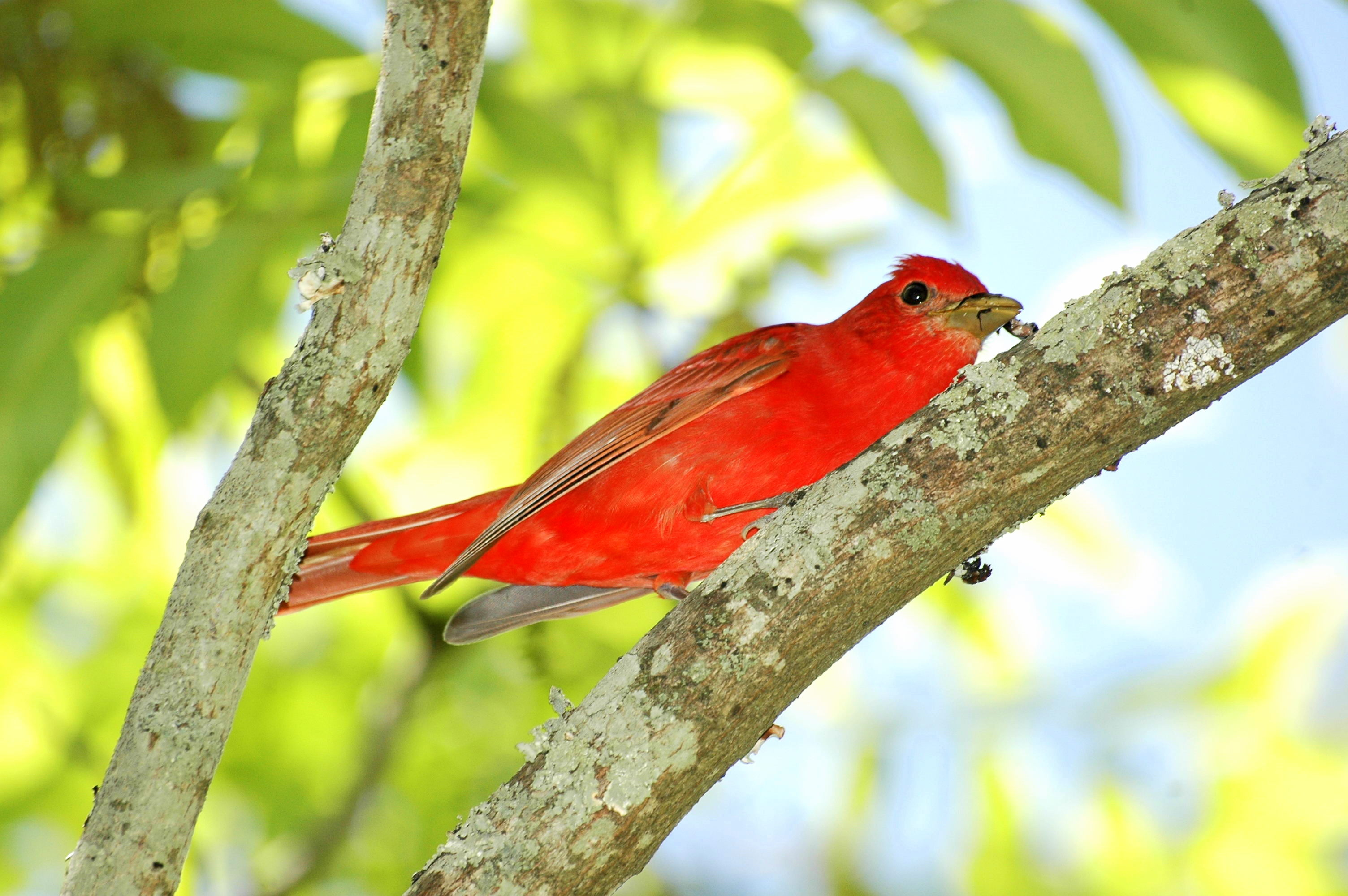 Male Summer Tanager in Hephzibah, GA